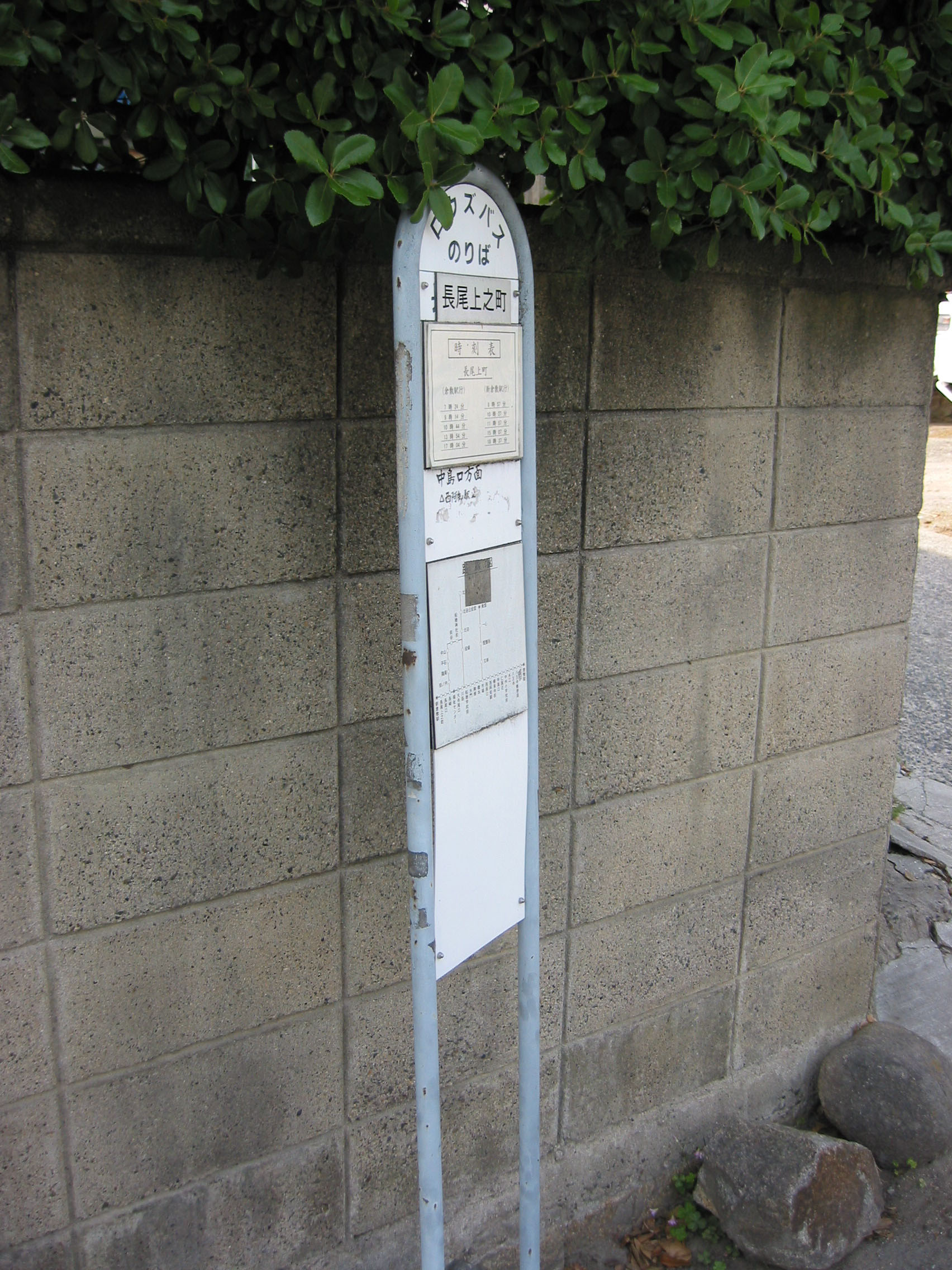 Rose Bus Nagao-kaminocho Bus Stop in Kurashiki City, Okayama Prefecture, Japan